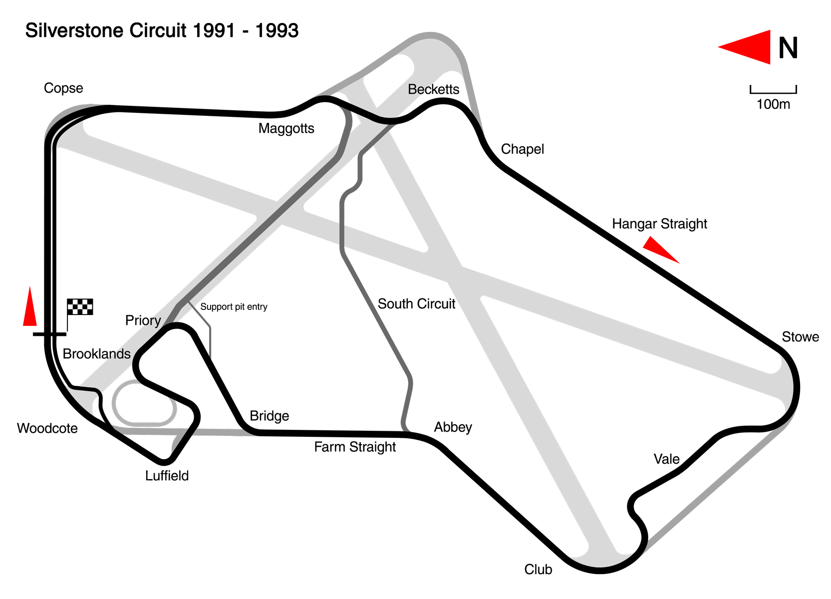 Track diagram of Silverstone Circuit in the UK in 1991 to 1993 configuration. Made to scale from aerial photographs.